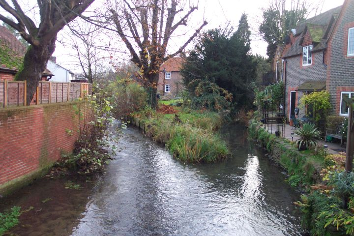 The River Pang in Pangbourne village, in the English county of Berkshire. For more information, see Wikipedia articles River Pang and Pangbourne.